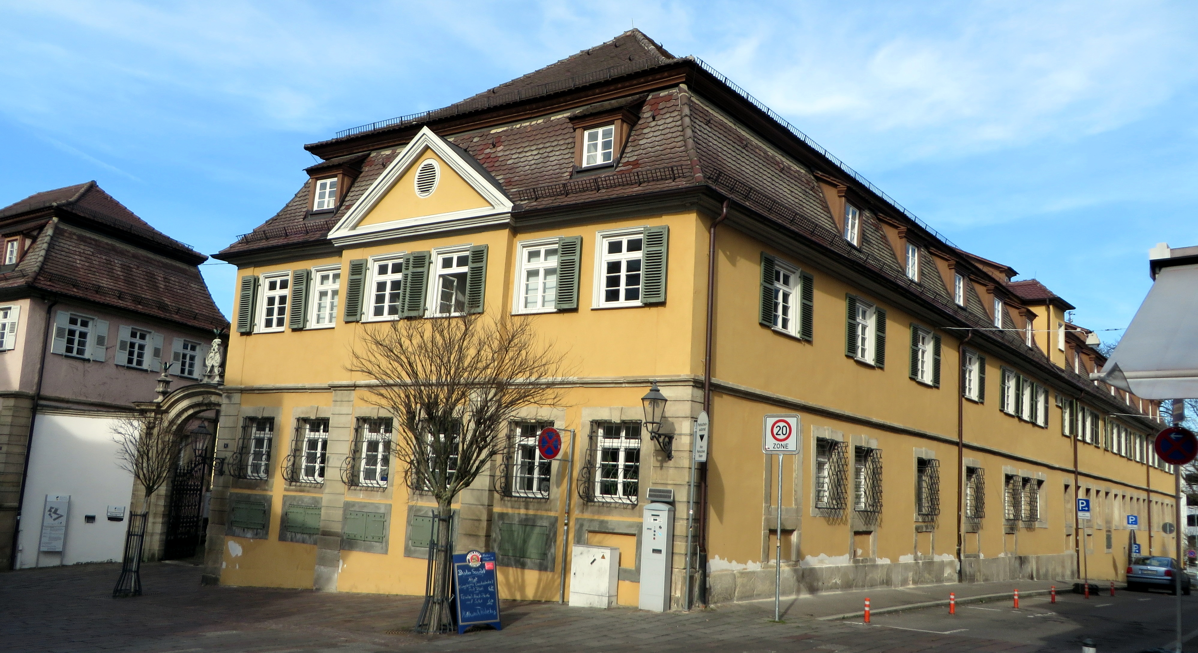 from 1752 to 1754 by Johann Adam Groß senior constructed former hospital, today domicile of Nürtingen-Geislingen University of Applied Science (Hochschule für Wirtschaft und Umwelt Nürtingen-Geislingen)